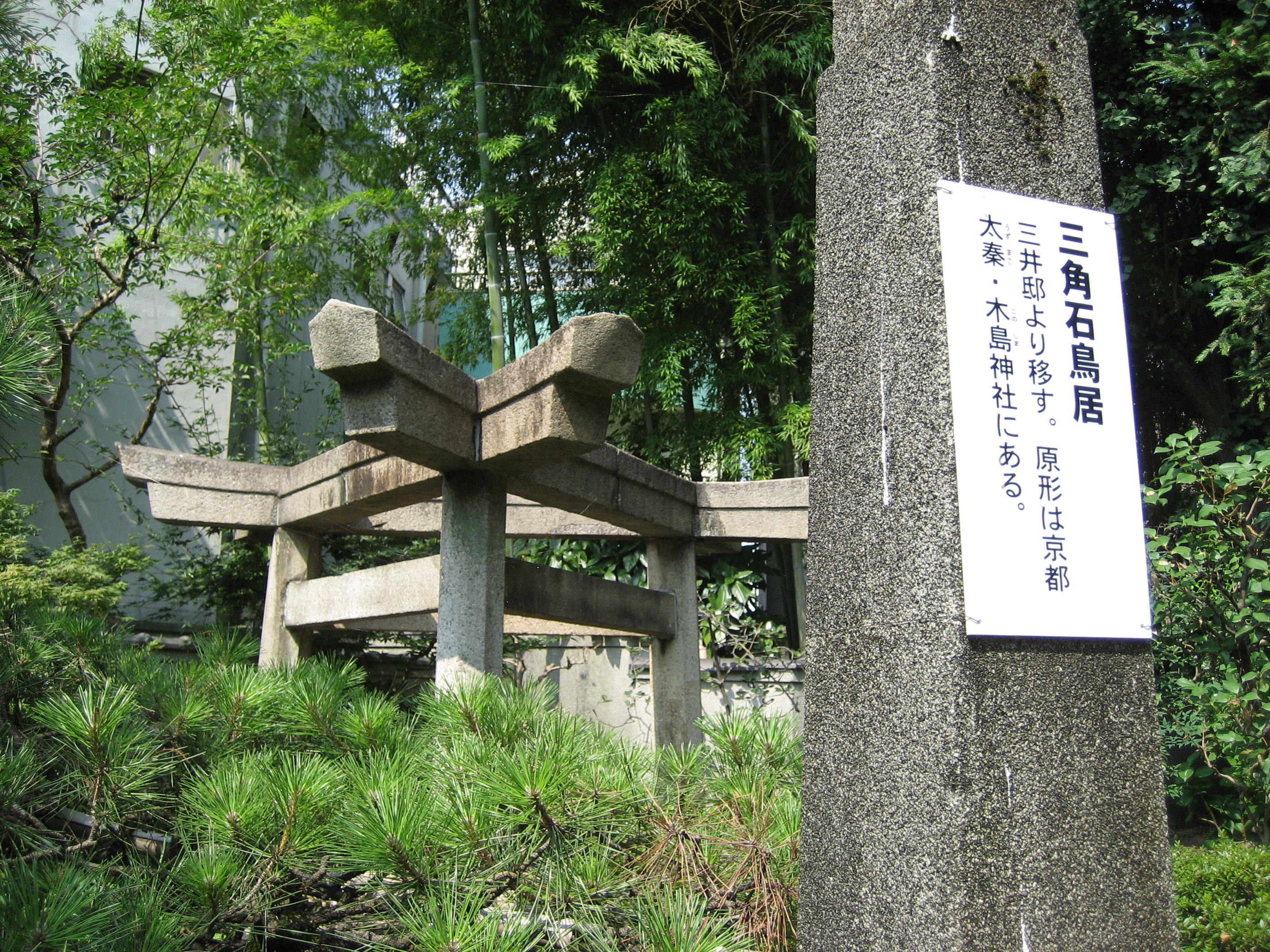 Mihasira torii in Mimeguri shrine in Sumida